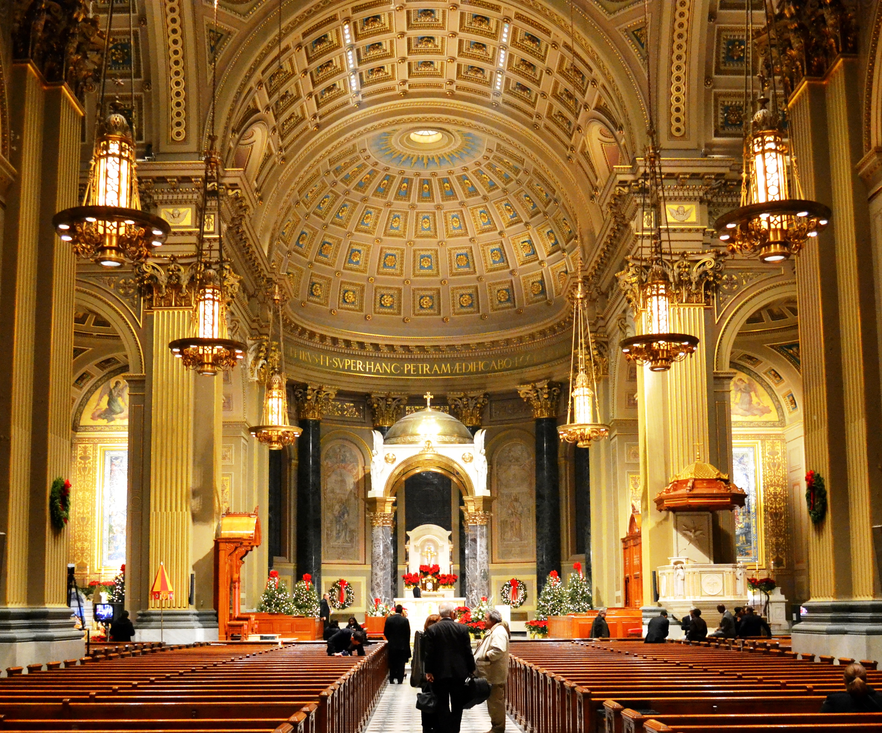 Image of the interior of the Cathedral Basilica of Saints Peter and Paul in Philadelphia, Pennsylvania.